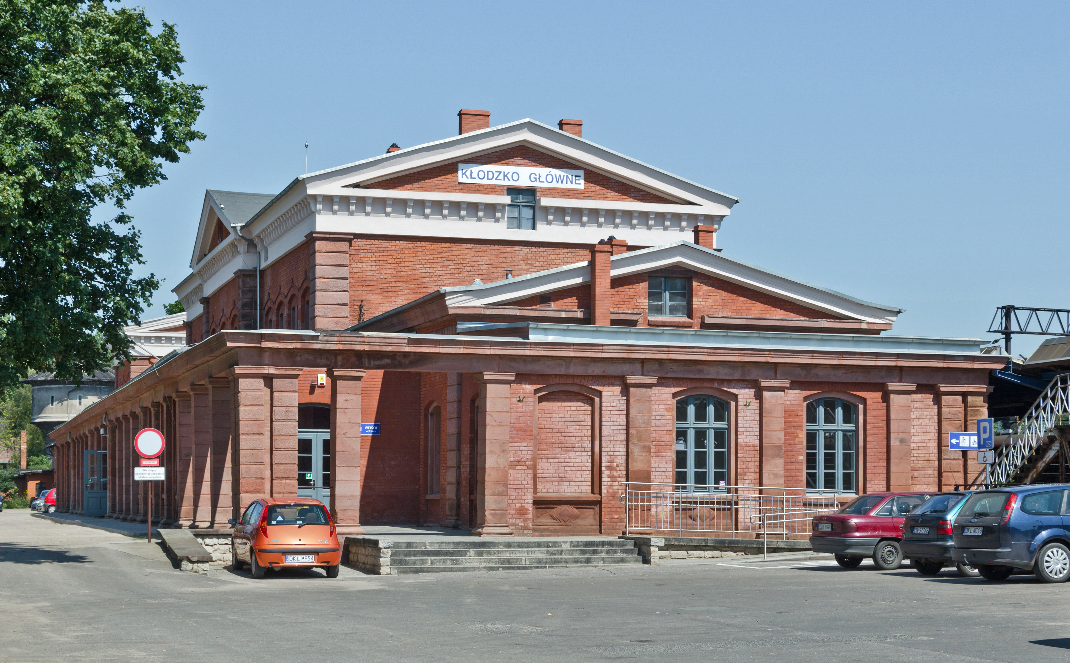 Dworcowa Street in Kłodzko, train station